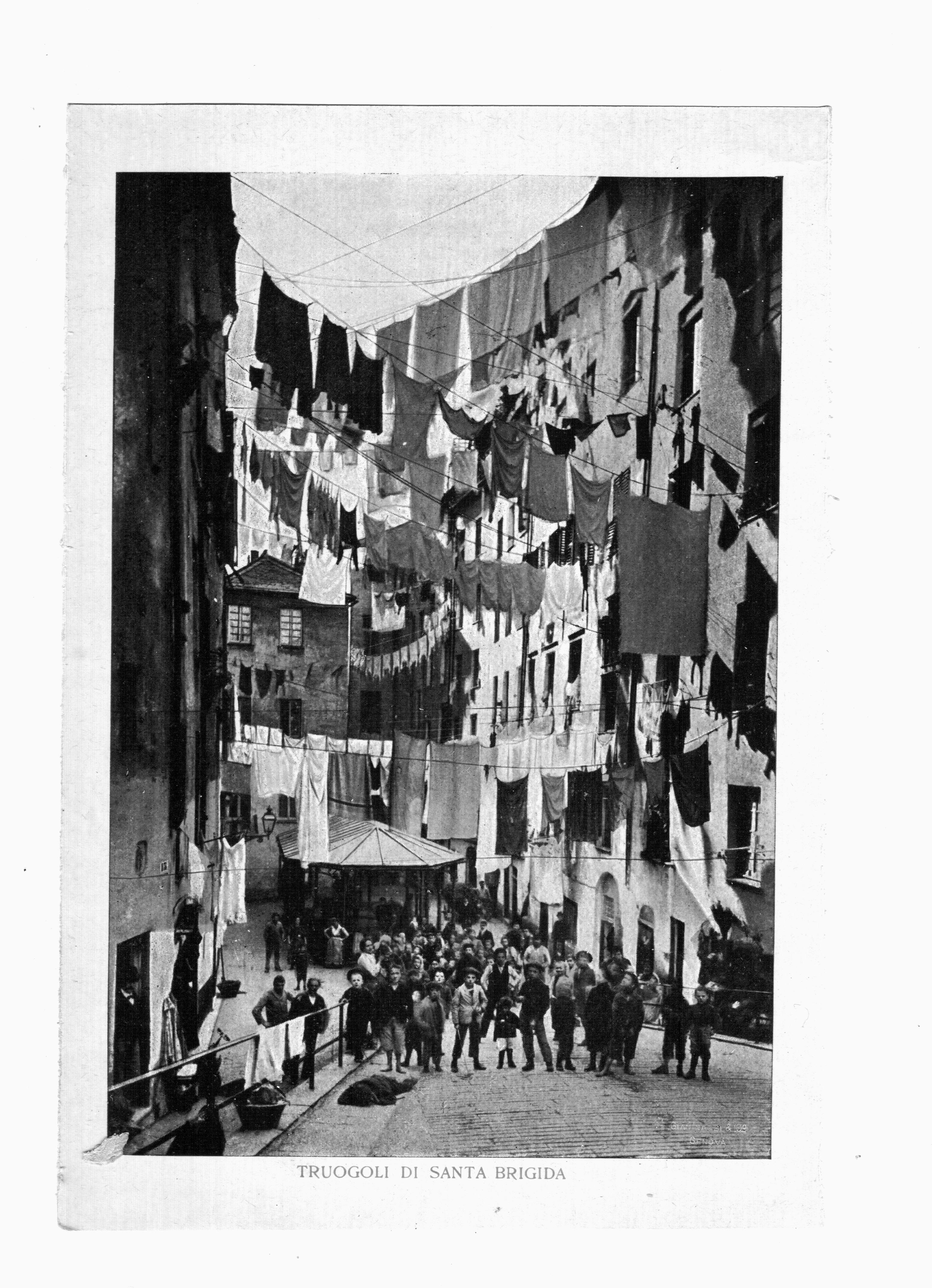 Genoa